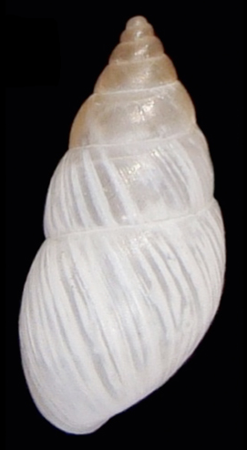 Photo of abapertural view of the shell of Bostryx fragilis. Paratype VMA 0021, shell height 17.4 mm.